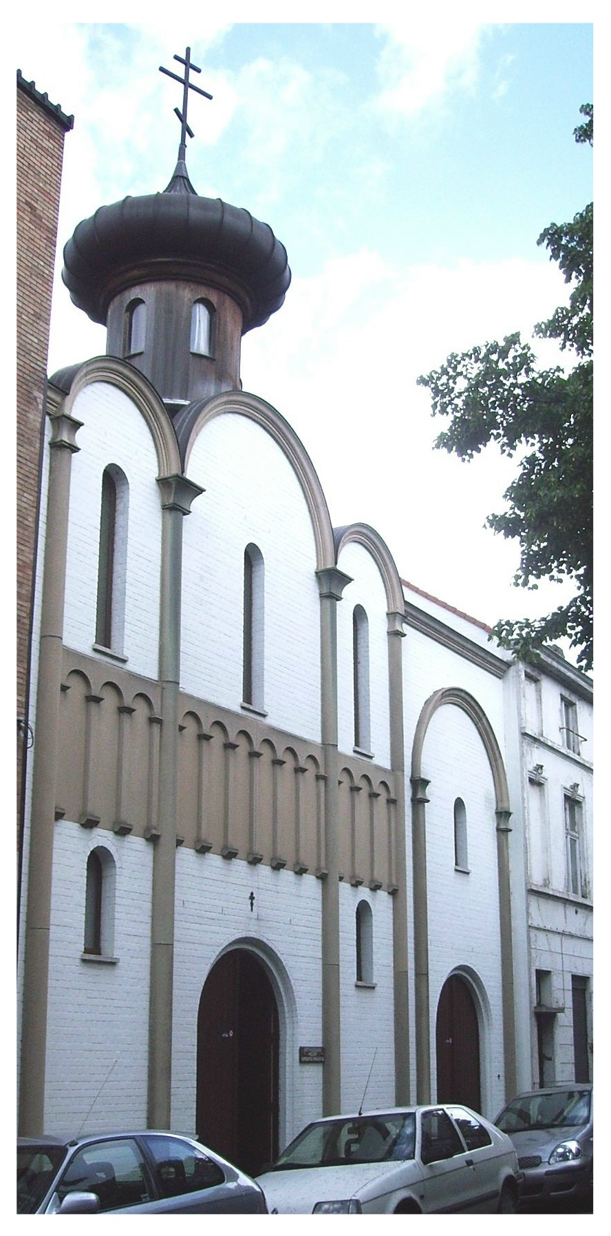 Russian Orthodox Church in Gent Belgium in Holy Corner Redgy Vanhove Own Camera